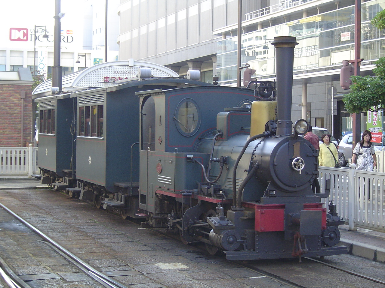 Iyo Railway "Botchan Train No.1" . This photo was taken at Matsuyamashi station.